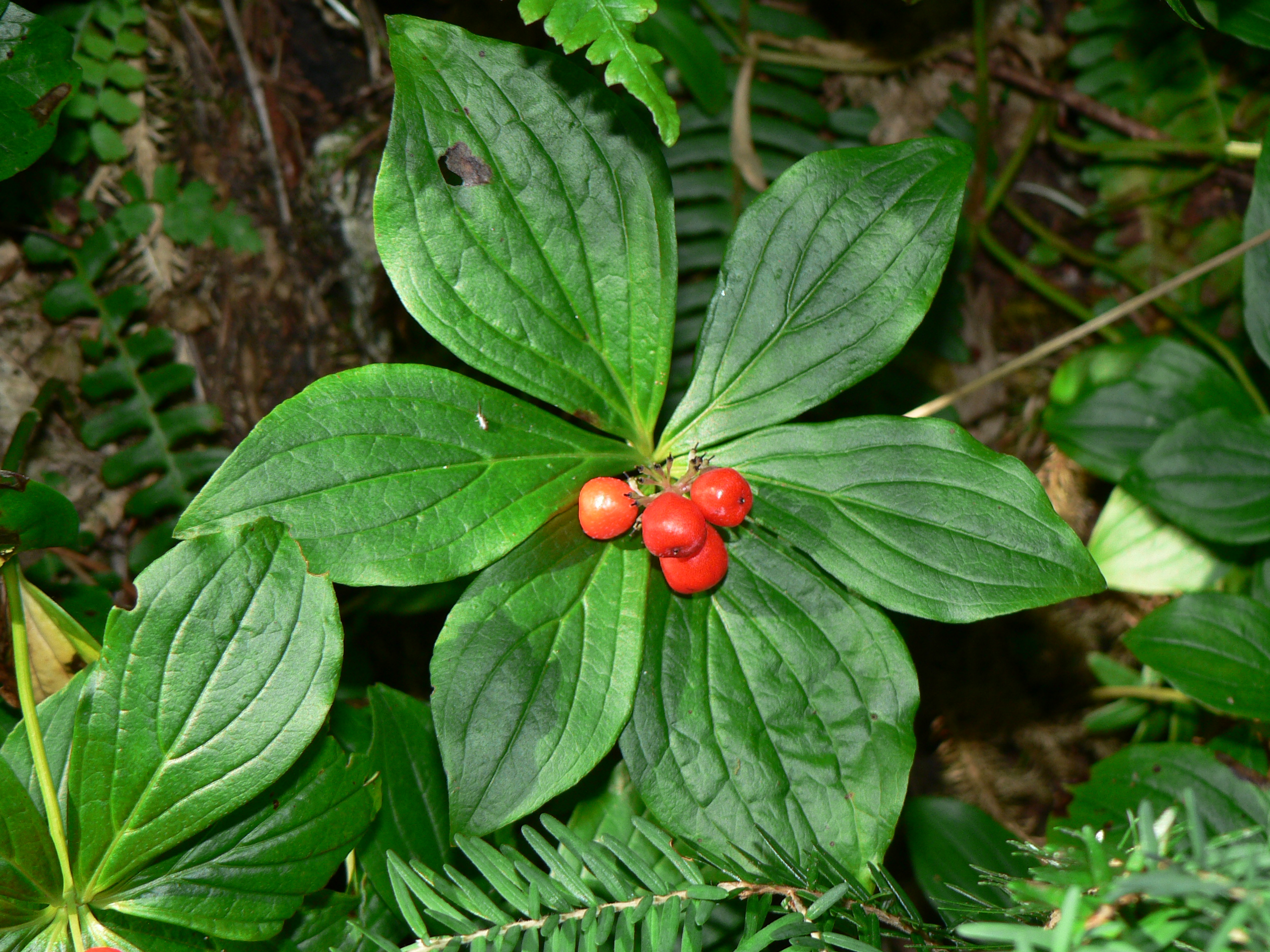 Bunchberry Dogwood